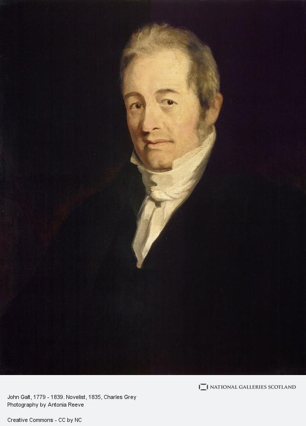 Title: John Galt, 1779 - 1839. Novelist Accession number: PG 1144 Artist:Charles GreyScottish (about 1808 - 1892) Depicted:John Galt Gallery:In Storage Object type:Painting Subject:Scottish literature Materials: Oil on canvas Date created: Dated 1835 Measurements: 74.90 x 62.50 cm (framed: 91.50 x 78.80 x 6.00 cm) Credit line: Purchased 1930 Photographer: Antonia Reeve